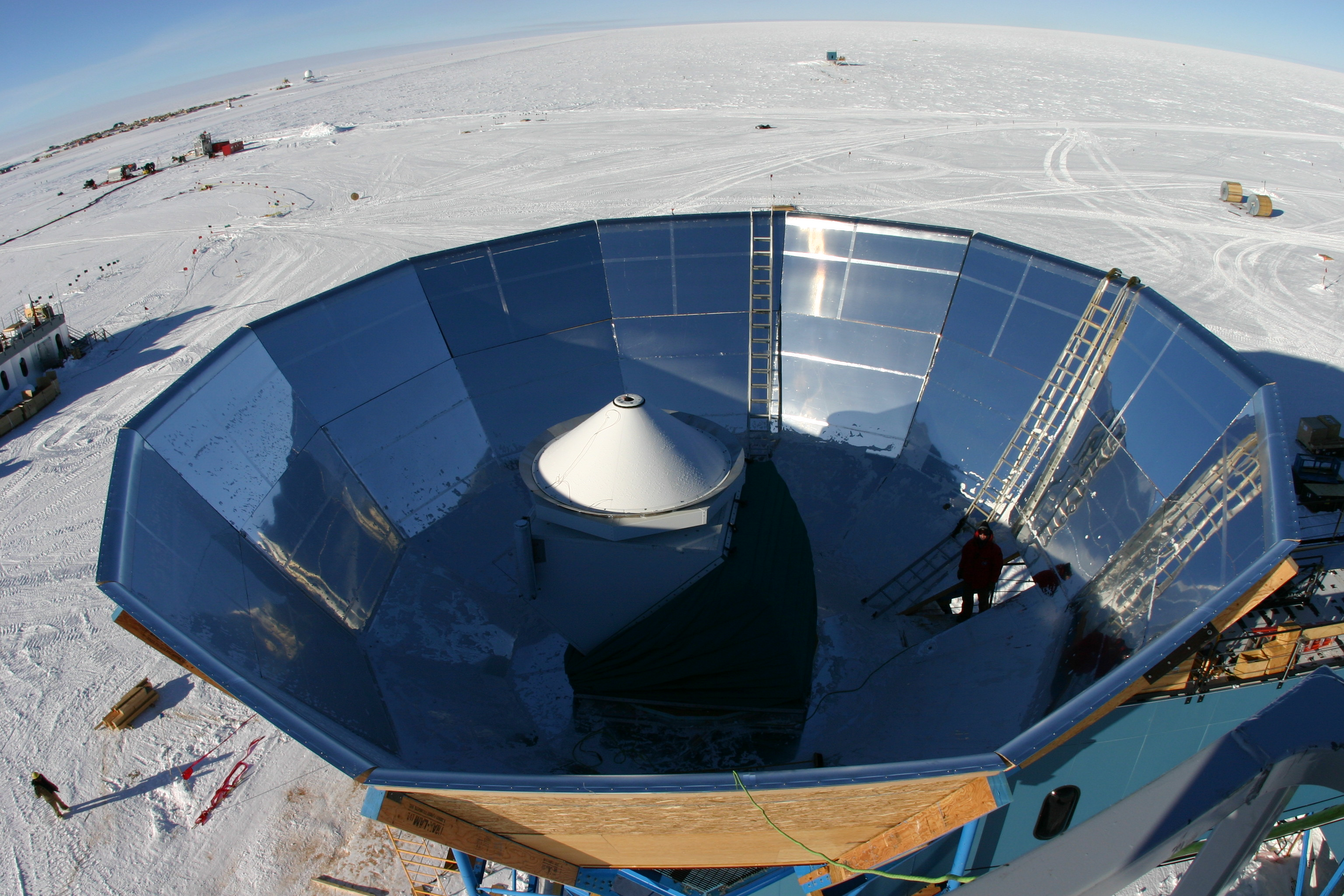 A photograph of the QUaD telescope inside its groundshield taken from a crane above the telescope. The telescope structure consists of a cassegrain optical system mated to the existing DASI mount surrounded by a reflective groundshield which limits signal contamination by the warm ~200K ground below. The secondary mirror is suspended by a large white foam cone, which is transparent to microwave frequency radiation.